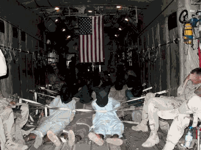 Bound, hooded captives, being flown to Guantanamo.